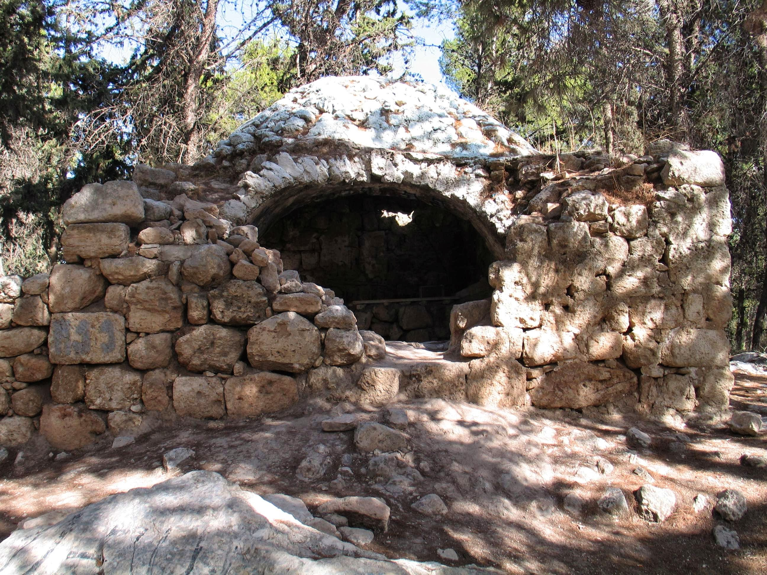 Hurvat ha-Gardi, Israel. Sheikh Arbawi's tomb.